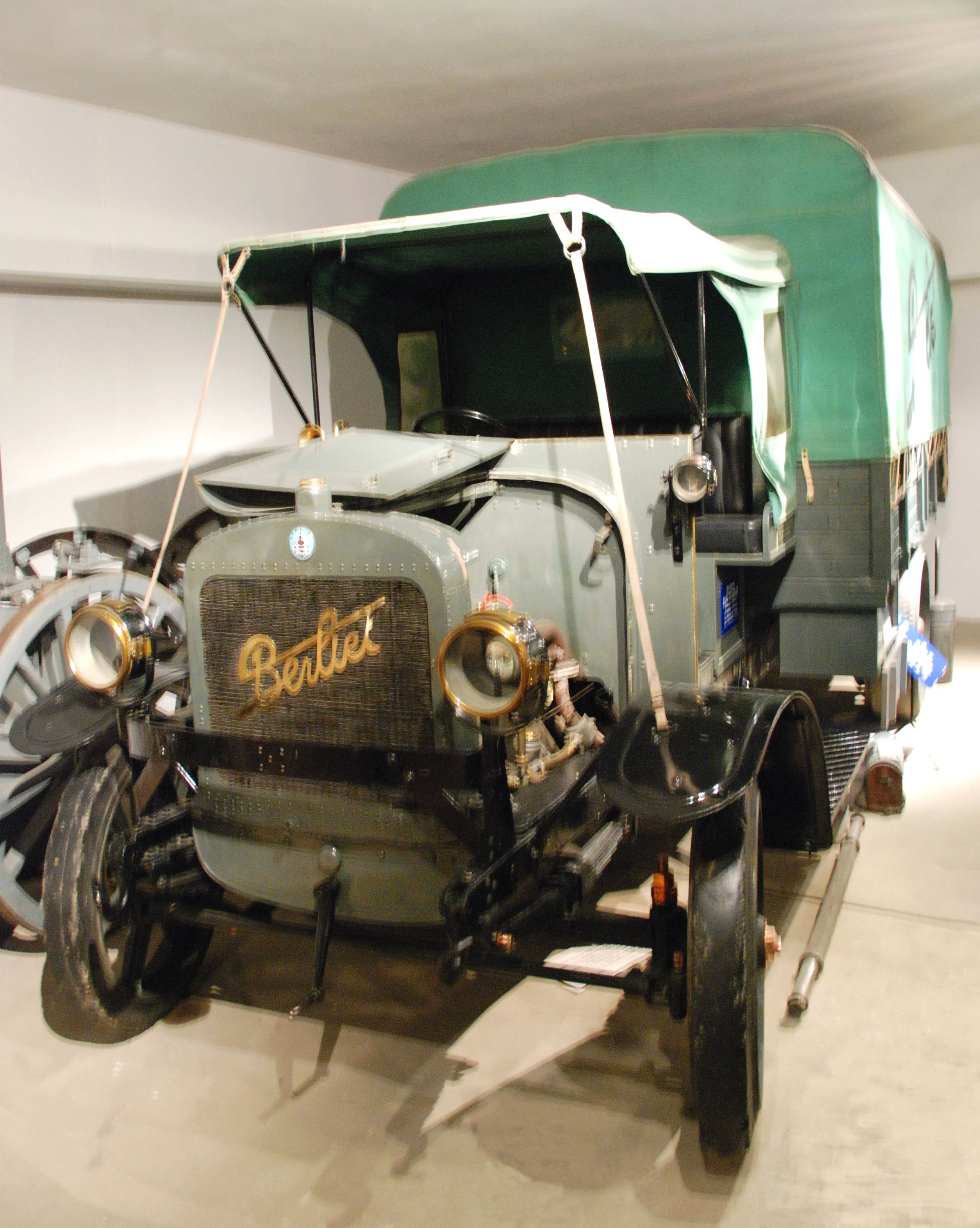 French truck Berliet from times of the WWI; the Verdun Memorial, Fleury-devant-Douaumont, France